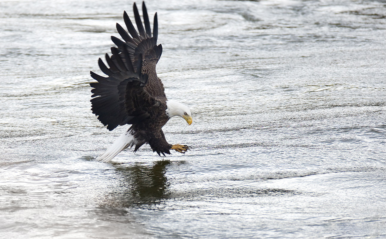 Bald eagle